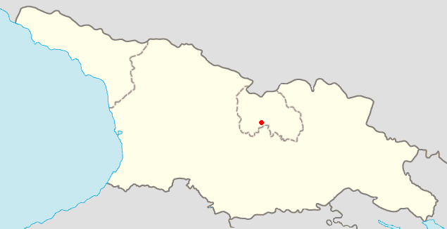 Location of Tskhinval(i) in Georgia